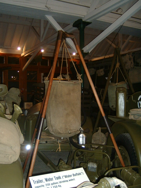 Wassertank 250 gallonen im National Museum of Military History in Diekirch in Luxembourg (Luxembourg)